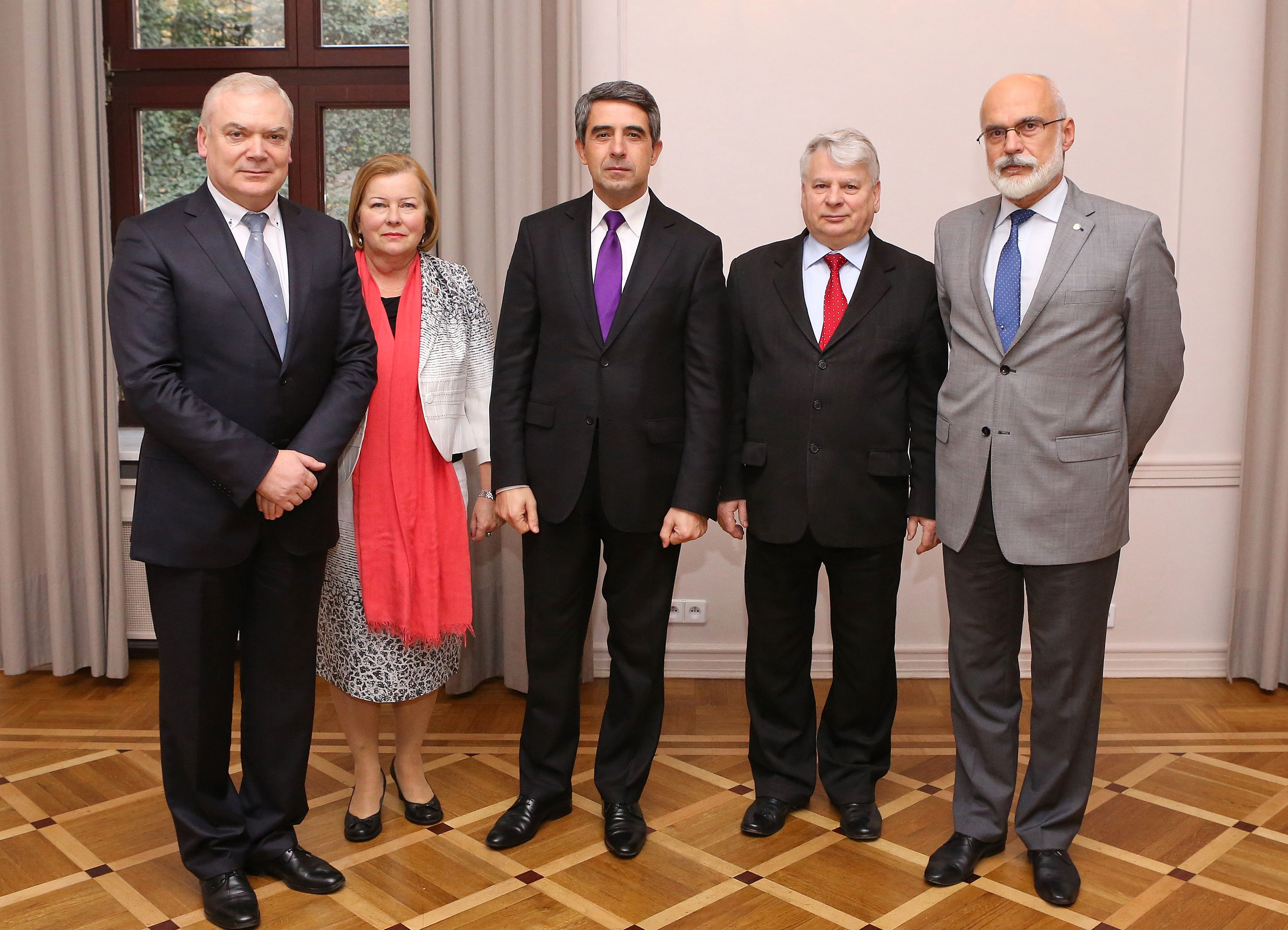 President of Bulgaria Rosen Plevneliev in the Polish Senate